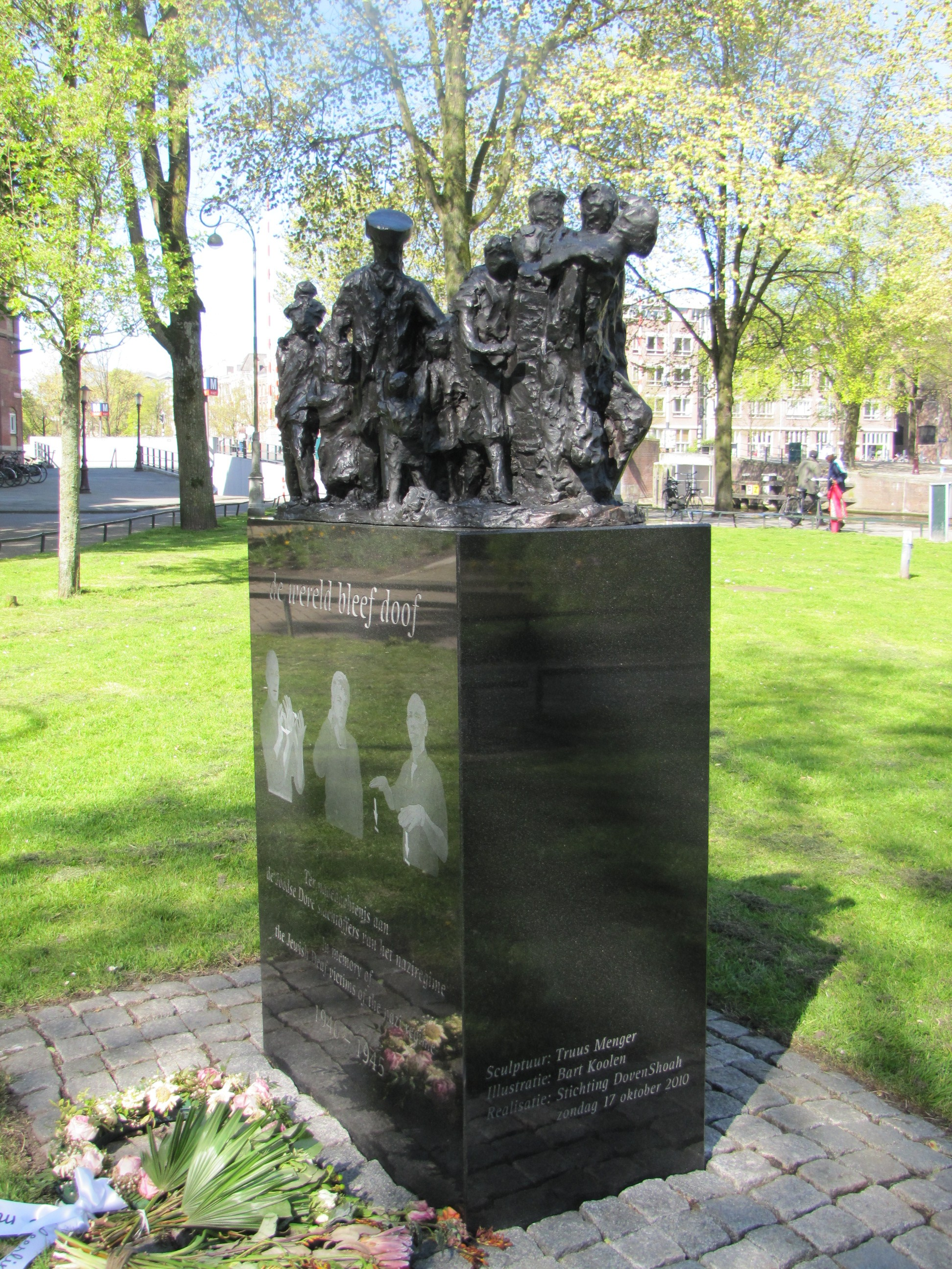 Holocaust memorial : "In memory of the Jewish Deaf victims of the nazi regime 1940-1945. In Amsterdam, Hortusplantsoen (the Netherlands). "De wereld bleef doof" (the world remained deaf) is indicated in Sign Language with three pictures (2016).